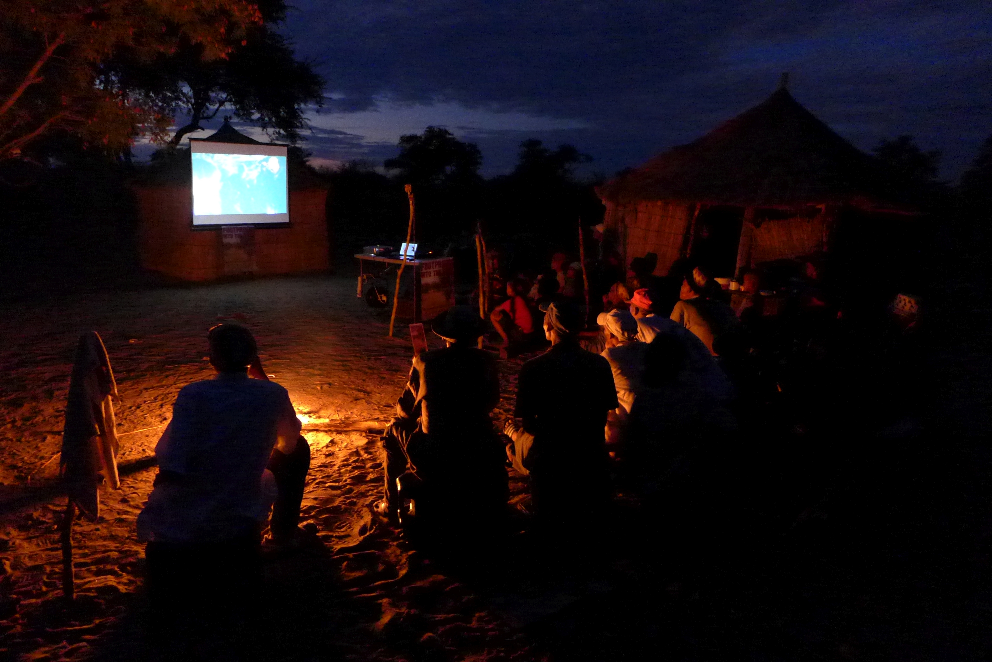 People sitting in the dark around a fire looking at the screen in the background